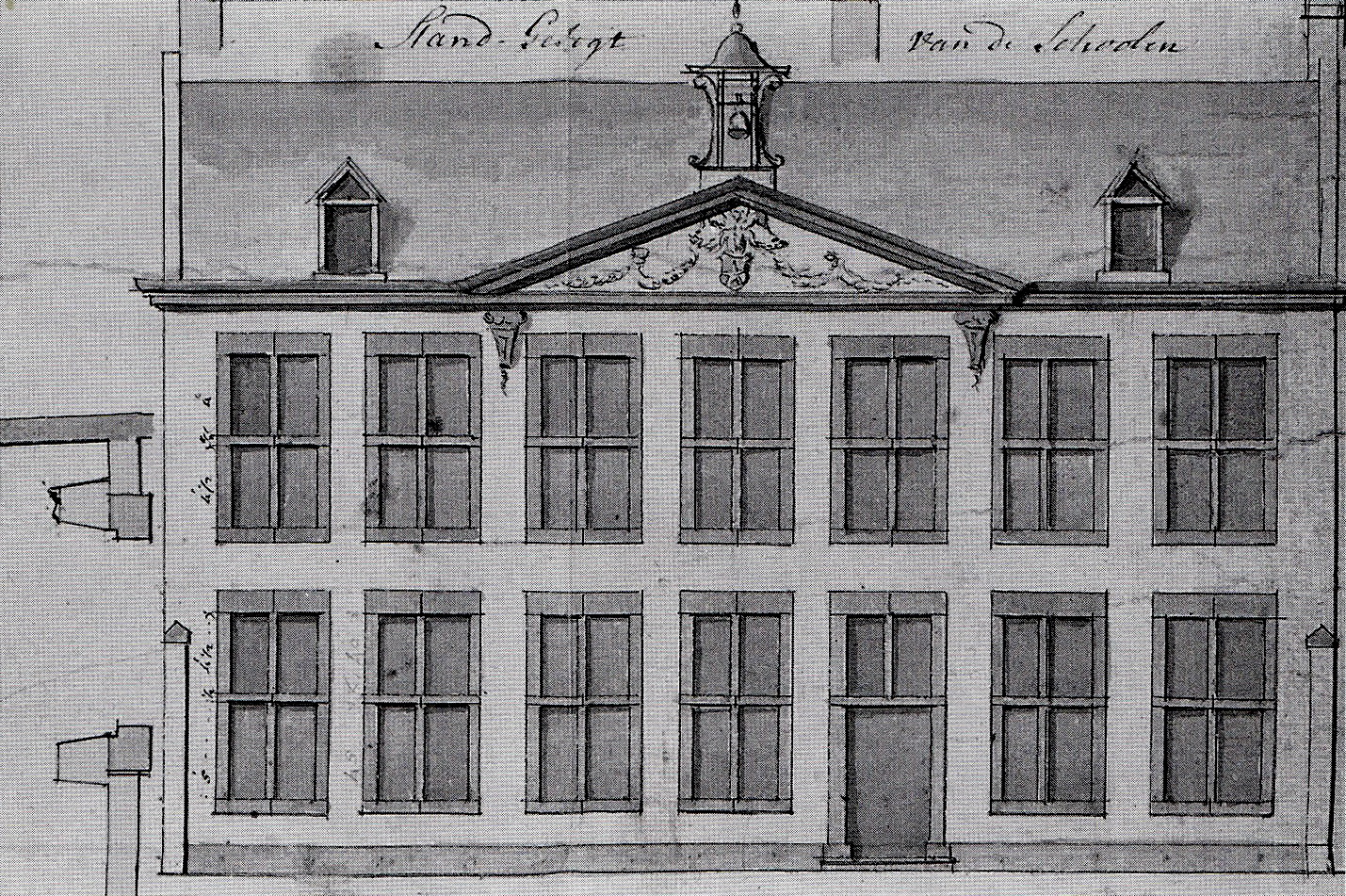 Design for the new Latin school in Maastricht, the Netherlands, by local architect Jean François Deplaye in 1787. The school was built on the site of the former brewery of the Jesuit Monastery, which was dissolved in 1773.